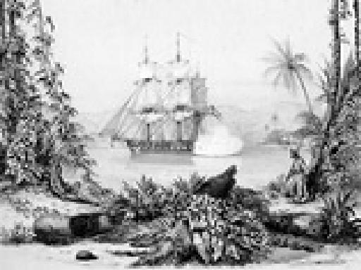 Illustration of the corvette Galathea at the Nicobar Islands in 1846.